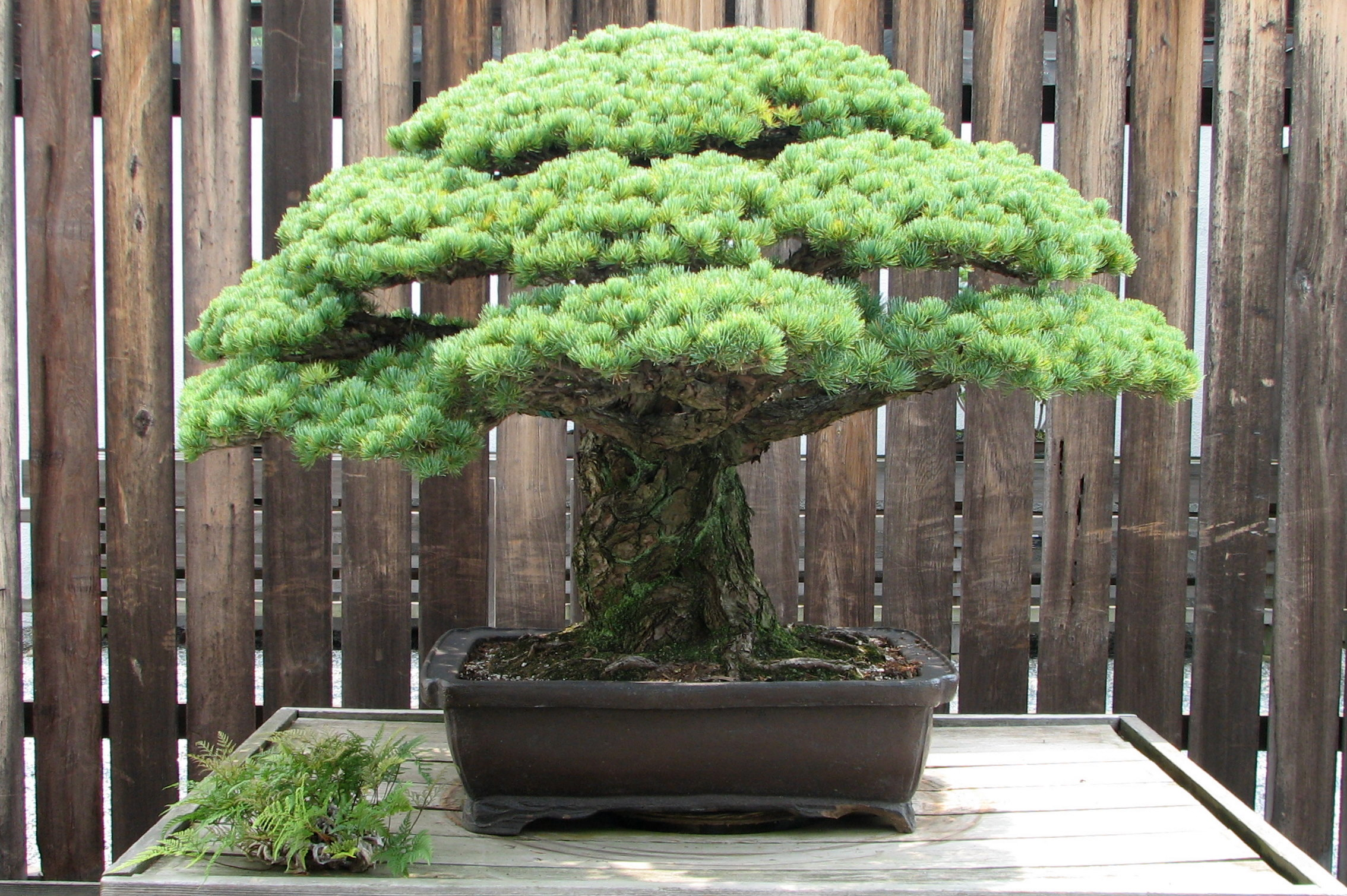 The Japanese White Pine (Pinus parviflora 'Miyajima') bonsai sometimes known as Hiroshima Survivor, on display at the National Bonsai & Penjing Museum at the United States National Arboretum. According to the tree's display placard, it has been in training since 1625. It survived the atomic blast in Hiroshima on August 6, 1945, and was donated by Masaru Yamaki. This is the "back" of the tree.